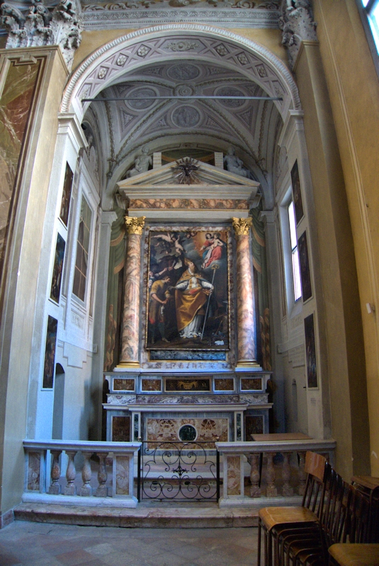 Chapel of St. Eligius